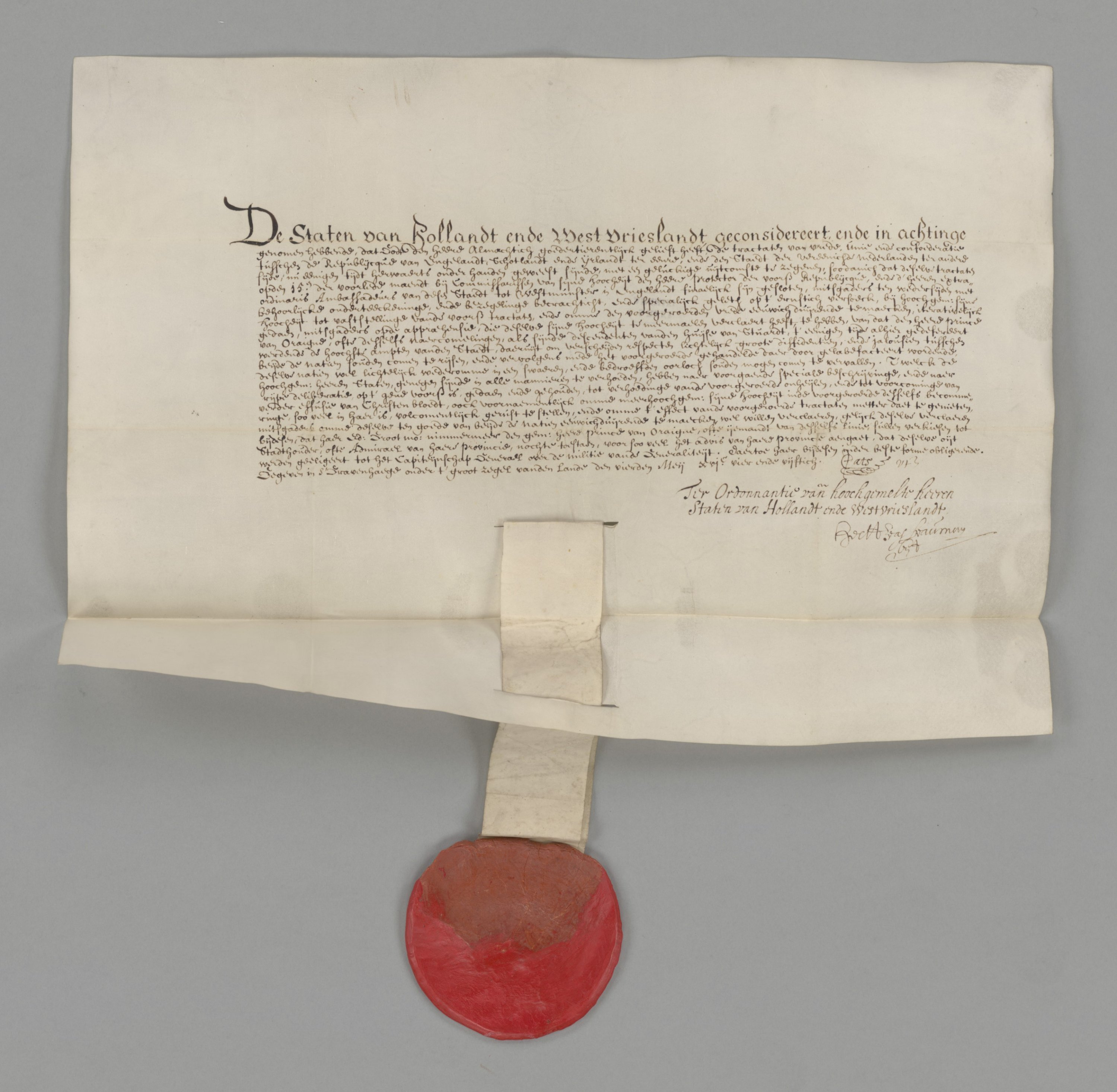 The "Act of Seclusion" in which the States of Holland declare never to appoint a member of the House of Orange-Nassau as stadtholder or officer of Holland.